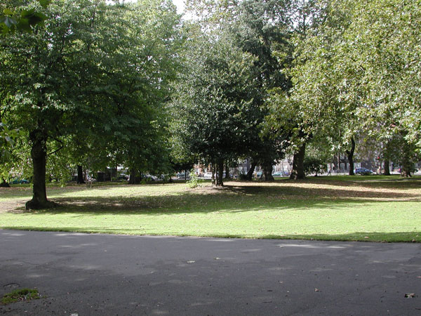 Probably site of Kennington Common's ton or mound